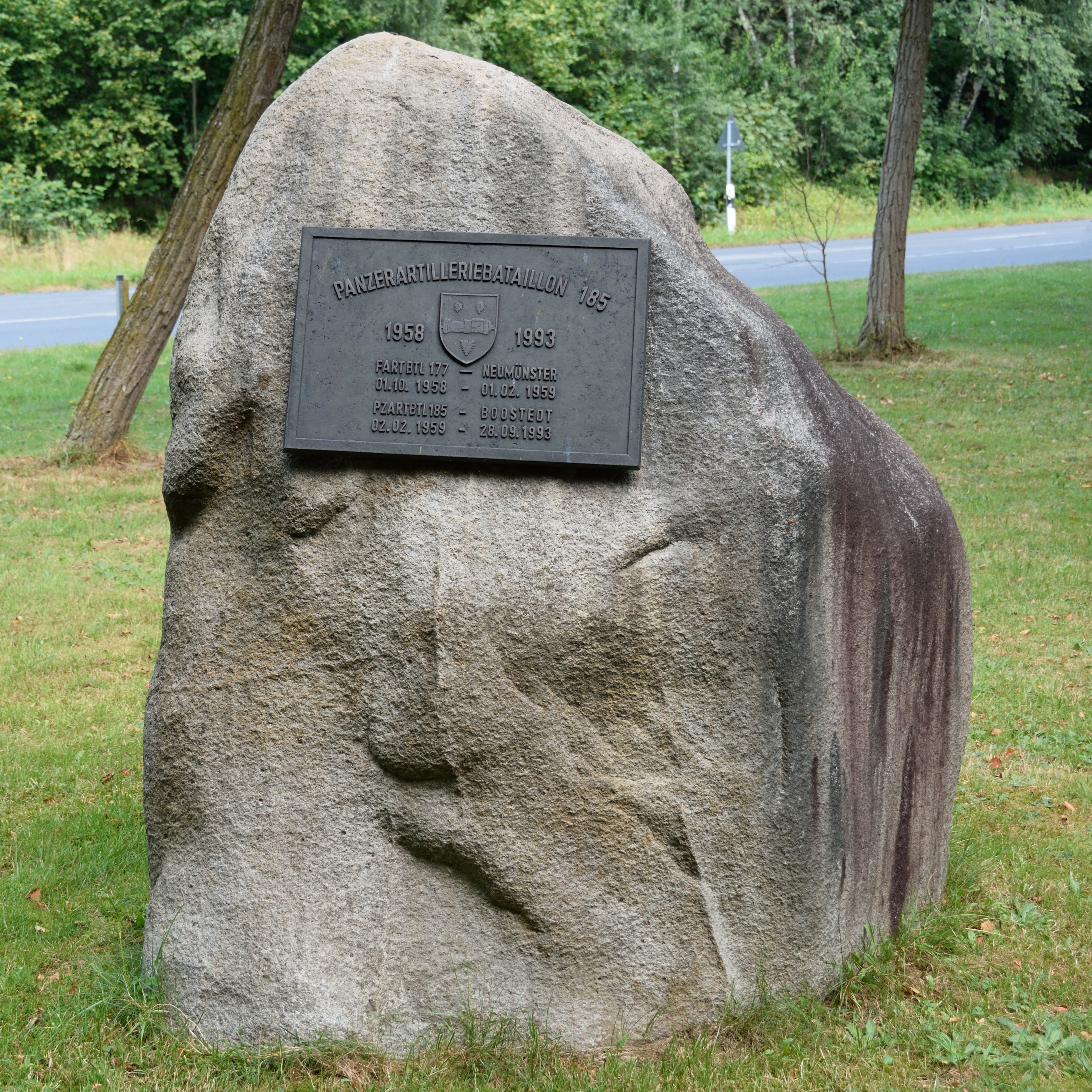 The memorial stone for the Panzerartilleriebataillon 185 in the "Ehrenhain of Schleswig-Holstein artillery" in Kellinghusen.